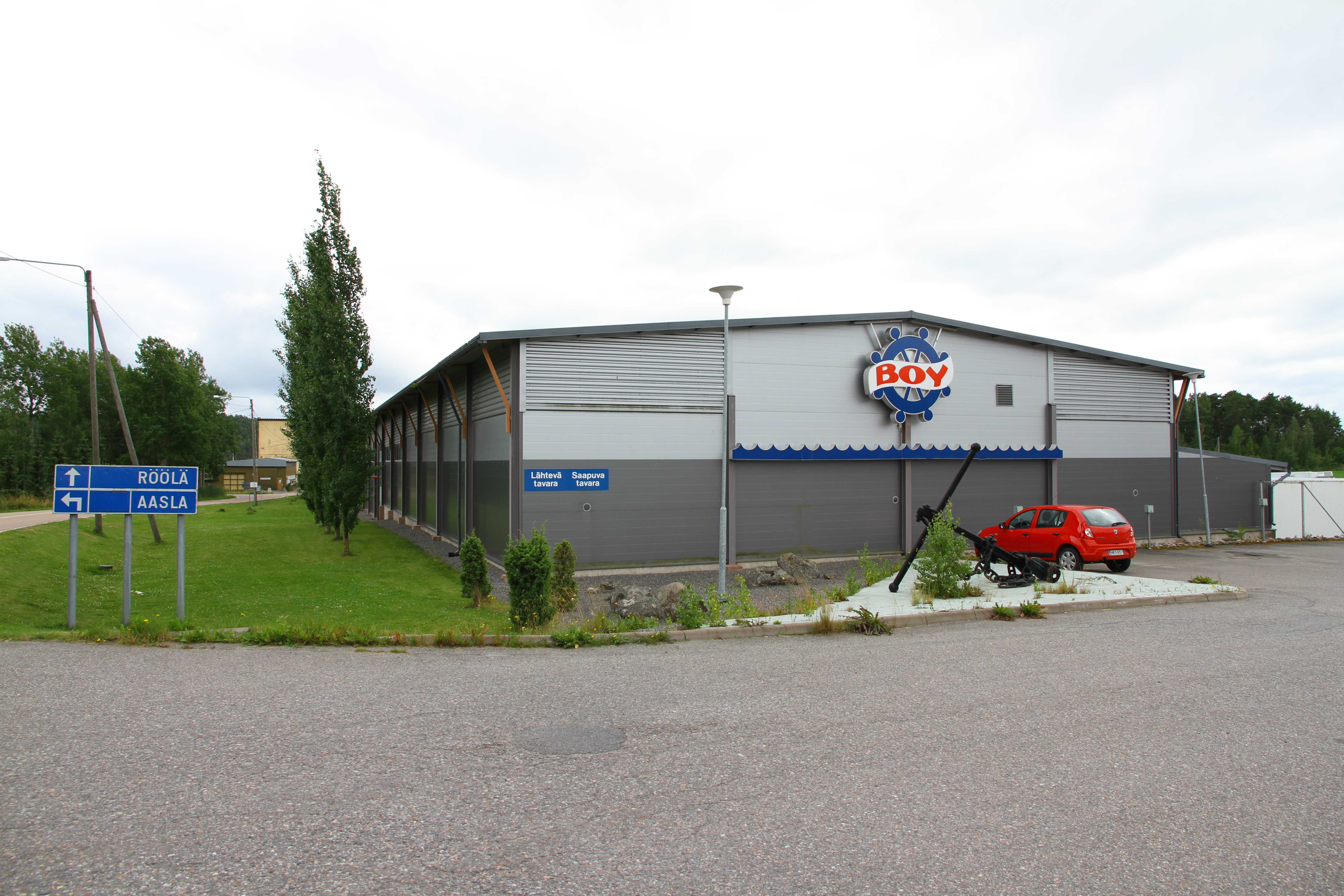 Röölä Naantali, Finland.